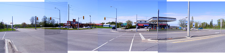 Fowler's Corners, Ontario, Canada [photo by P.B.Toman]